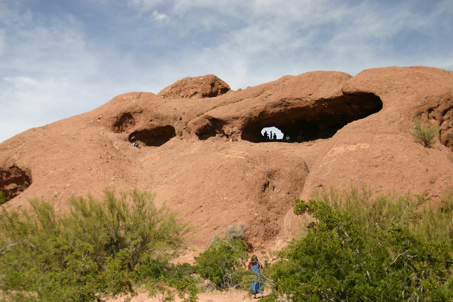 The Papago Buttes in Phoenix, Arizona, USAPapago Buttes